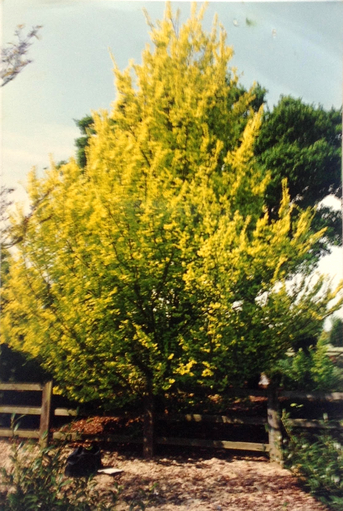 Ulmus minor 'Dicksonii'. Hilliers